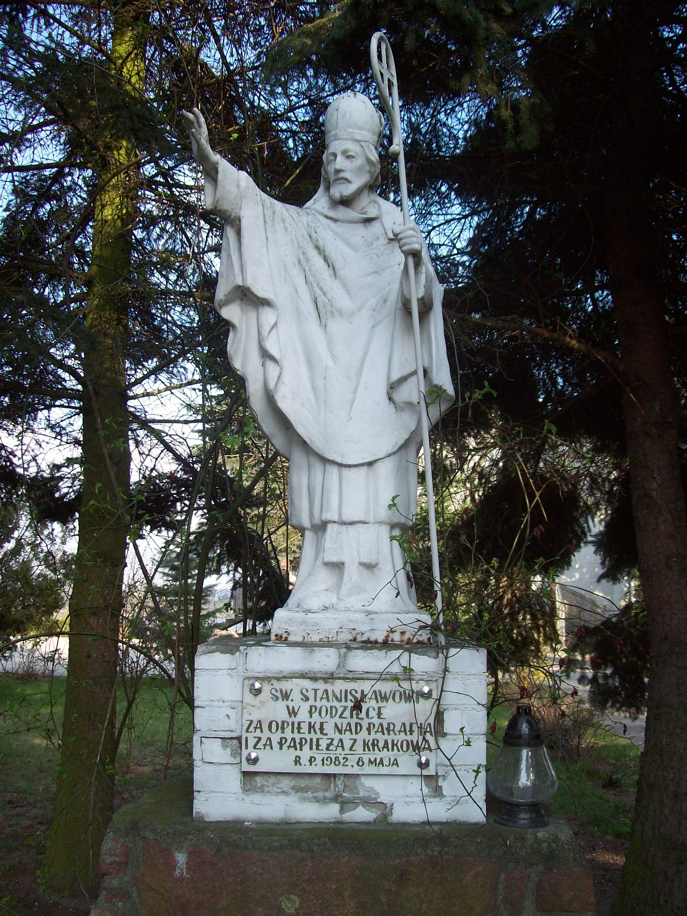 Saint Stanisław Bishop figure near catolic church in Bytoń (PL)